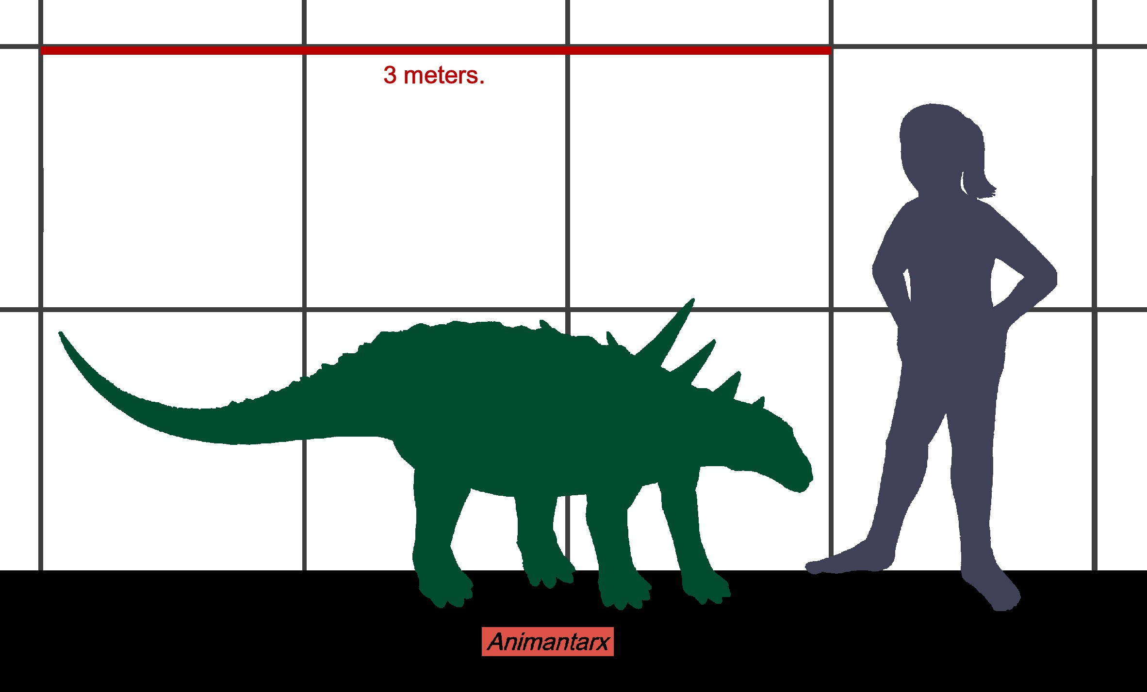 Size comparison between the thyreophorna dinosaur Animantarx and a human.